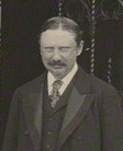 Aretas Akers-Douglas, 1st Viscount Chilston, statesman